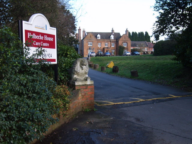 Gunpowder Plot House Holbeche House near Dudley was home of Robert Catesby leader of the Gunpowder plot. The Plotters met here after Guy Fawkers Capture, and the house was surrounded by the crown. Three died including Catesby and the rest captured. The house is now a nursing home.